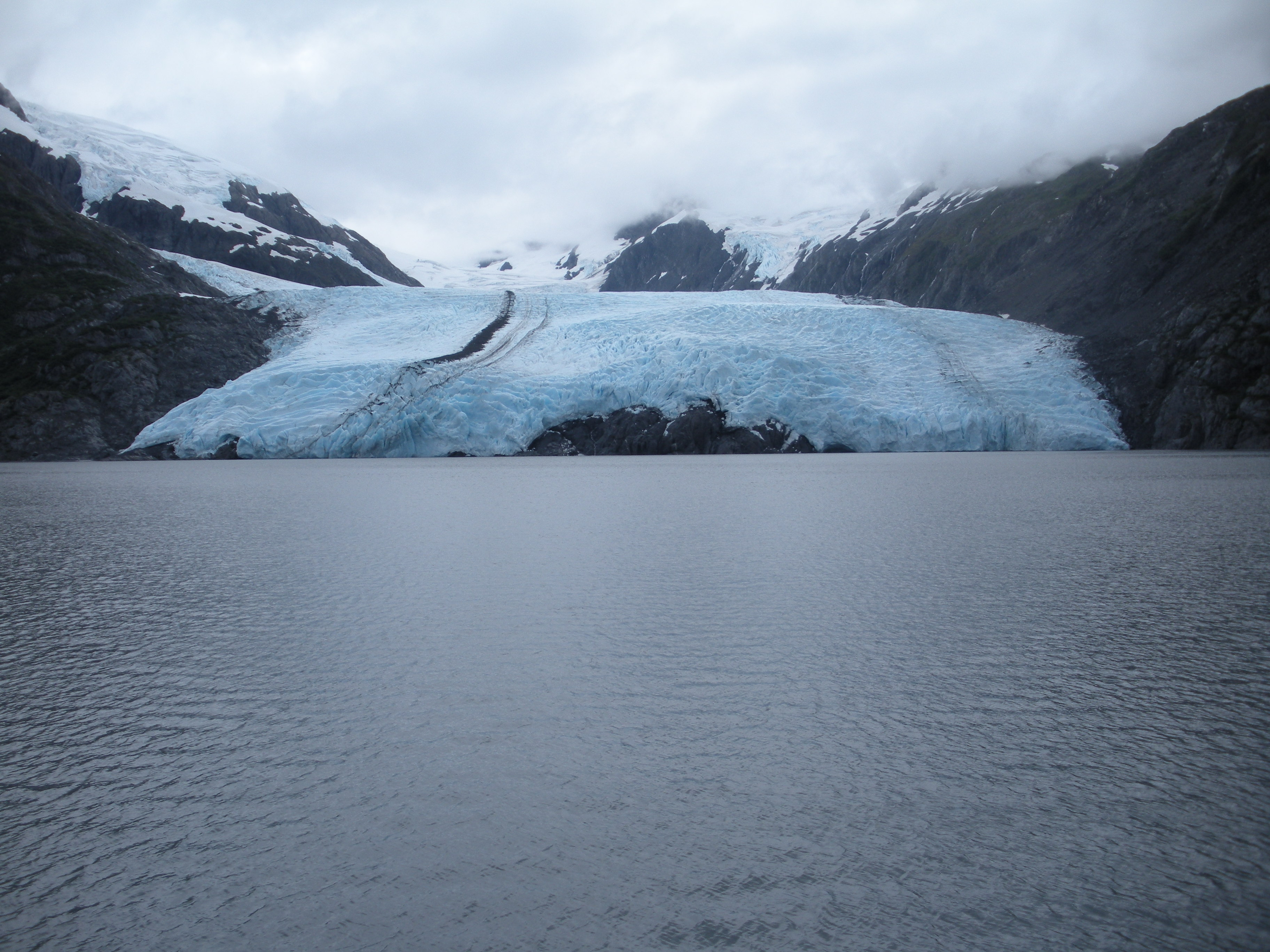 Portage Glacier, taken in July, 2009